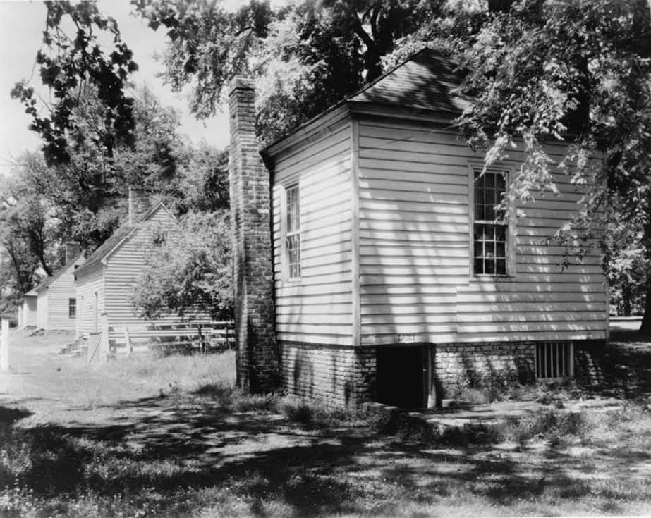 "Residence, cabin, on James River, Tuckahoe Plantation, Goochland County, Virginia," black and white photograph, by the American photographer Frances Benjamin Johnston. The photograph is part of the Frances Benjamin Johnston Collection, which was donated to the Library of Congress. There are no restrictions on publication. Image courtesy of the Library of Congress, Washington, D.C.